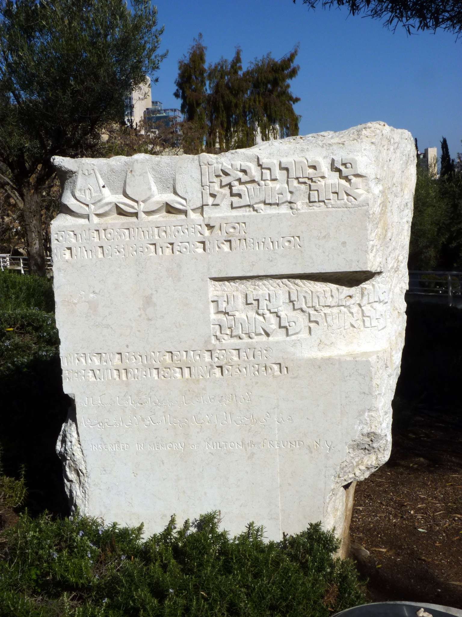 Jerusalem, King George Street, stone engraved with Psalm 132 : For the LORD has chosen Zion, he has desired it for his dwelling This is my resting place for ever and ever; here I will sit enthroned, for I have desired it. (psalm 132:13-14)